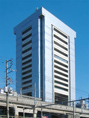 Hoku Topia